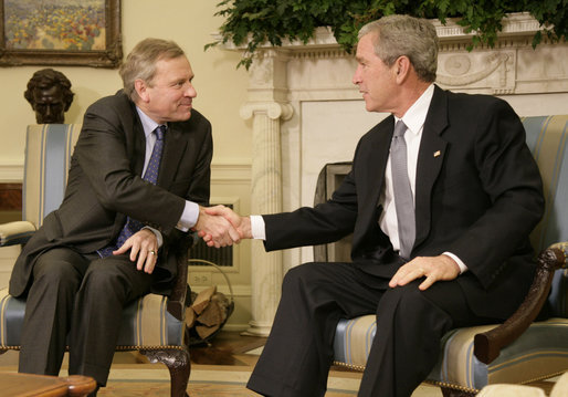 President George W. Bush welcomes NATO Secretary-General Jaap de Hoop Scheffer to the Oval Office Friday, Oct. 27, 2006. White House photo by Kimberlee Hewitt